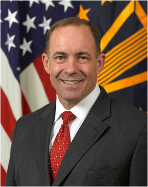 William K. Lietzau when he was Deputy Assistant Secretary of Defense for Rule_of_Law_&_Detainee_Policy.